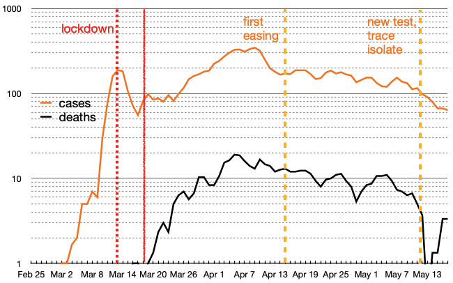 Semi-log graph of new cases and daily deaths in Denmark, showing dates of the lockdown and partial easing